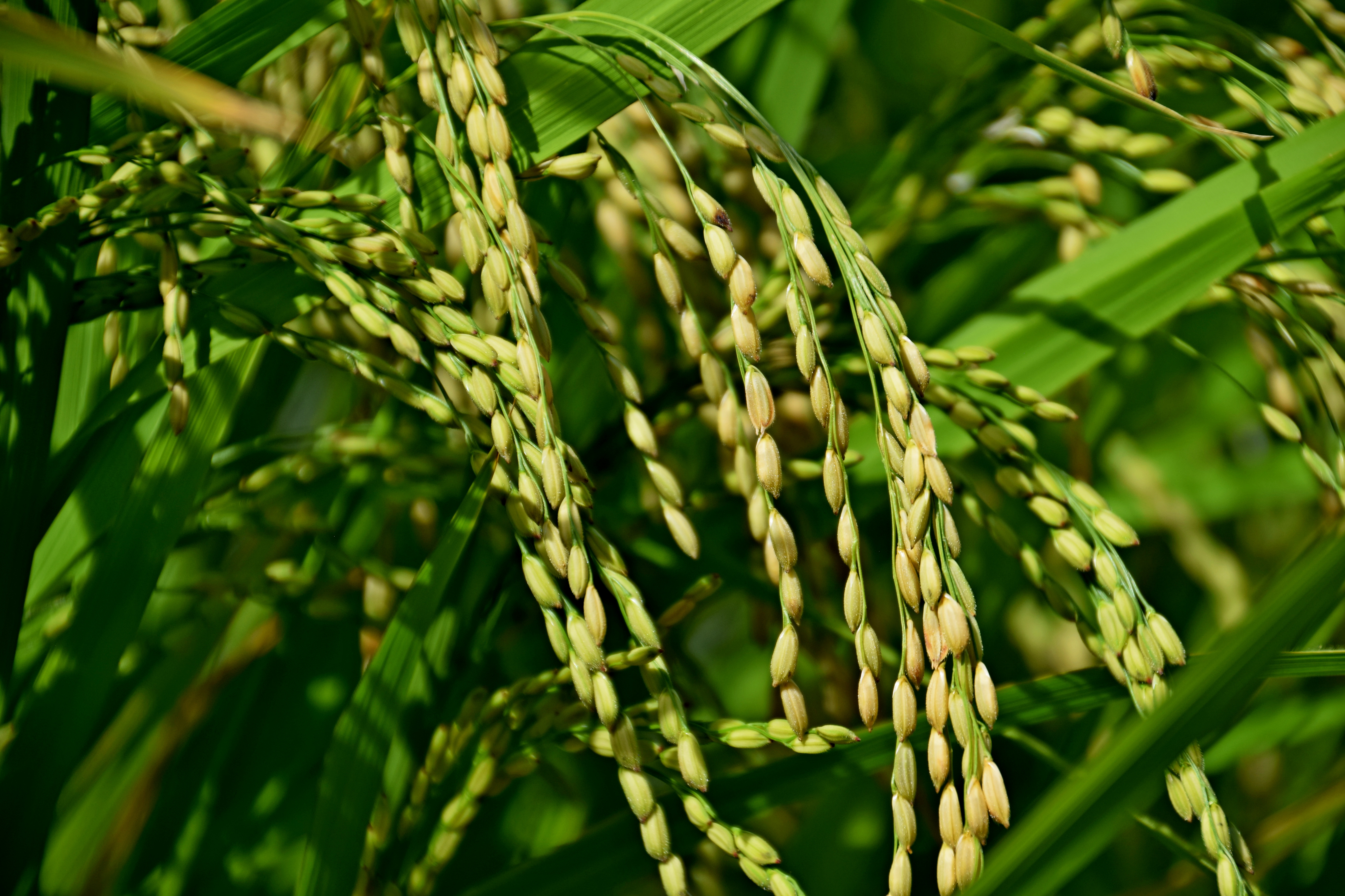 Oryza sativa in Jardin des Plantes de Toulouse